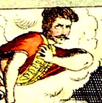 Sava Bimbashi